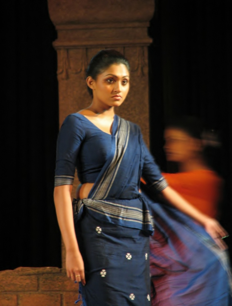 Sinhalese girl wearing a traditional Kandyan saree (osaria) Photograph-1